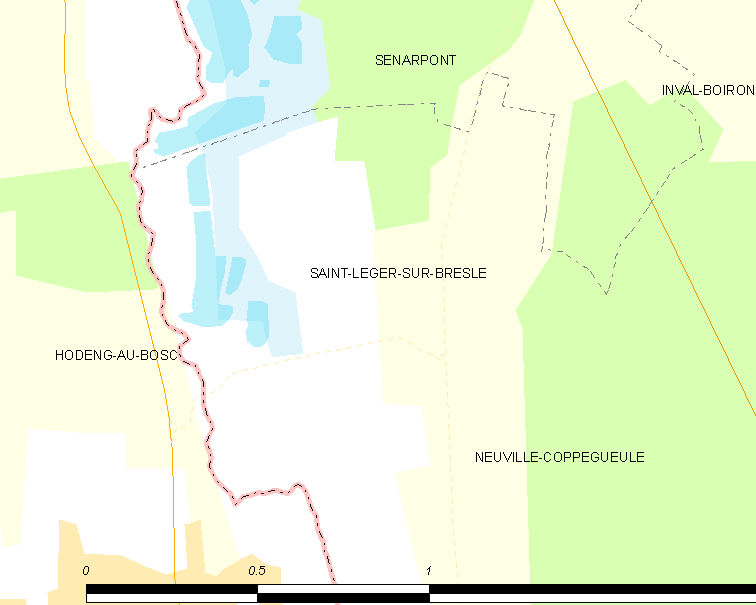 Map of French municipality Saint-Léger-sur-Bresle